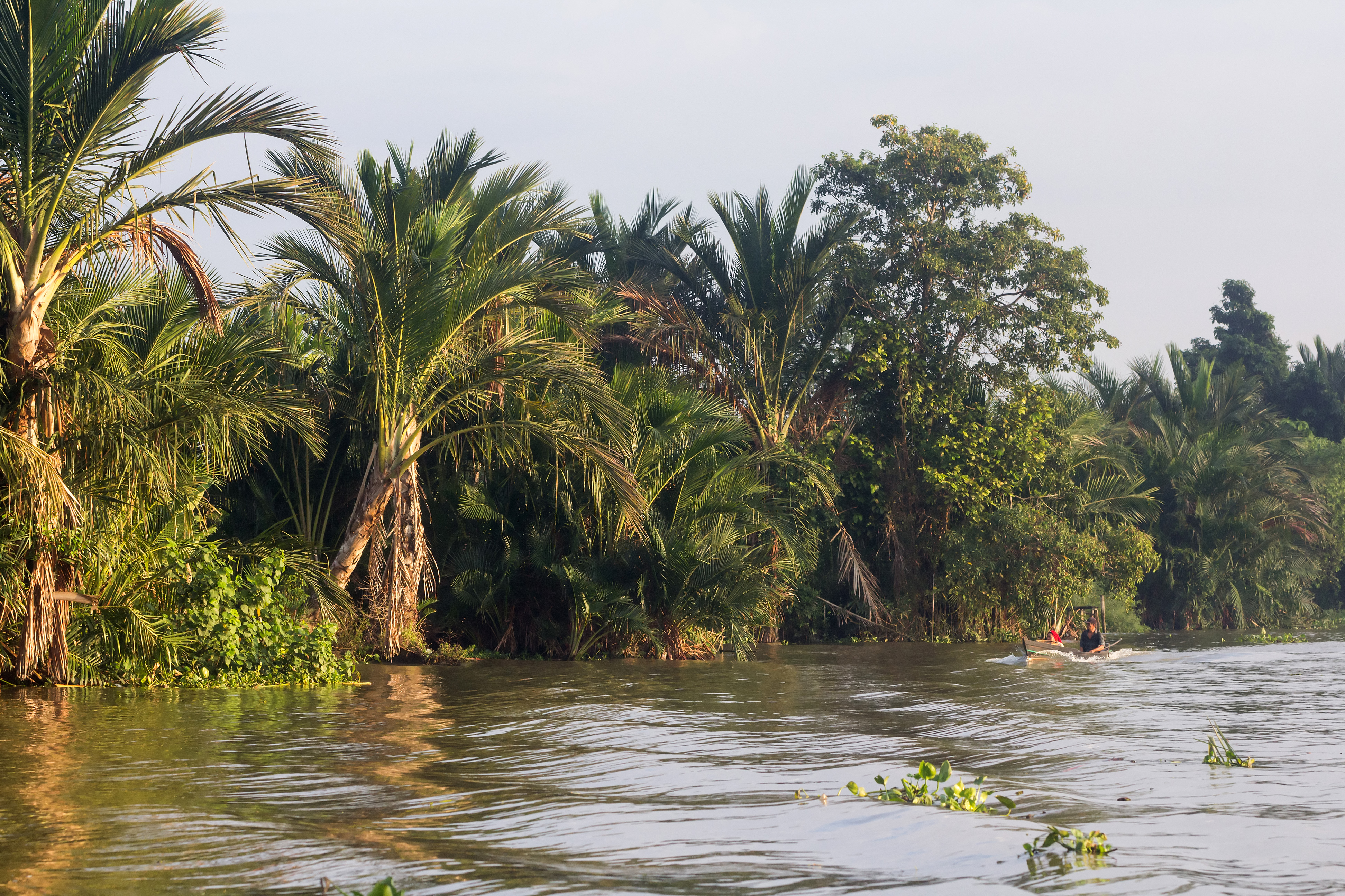 Banks of Martapura River, South Kalimantan, 2018-07-28. A man in a small boat is visible to the lower left.